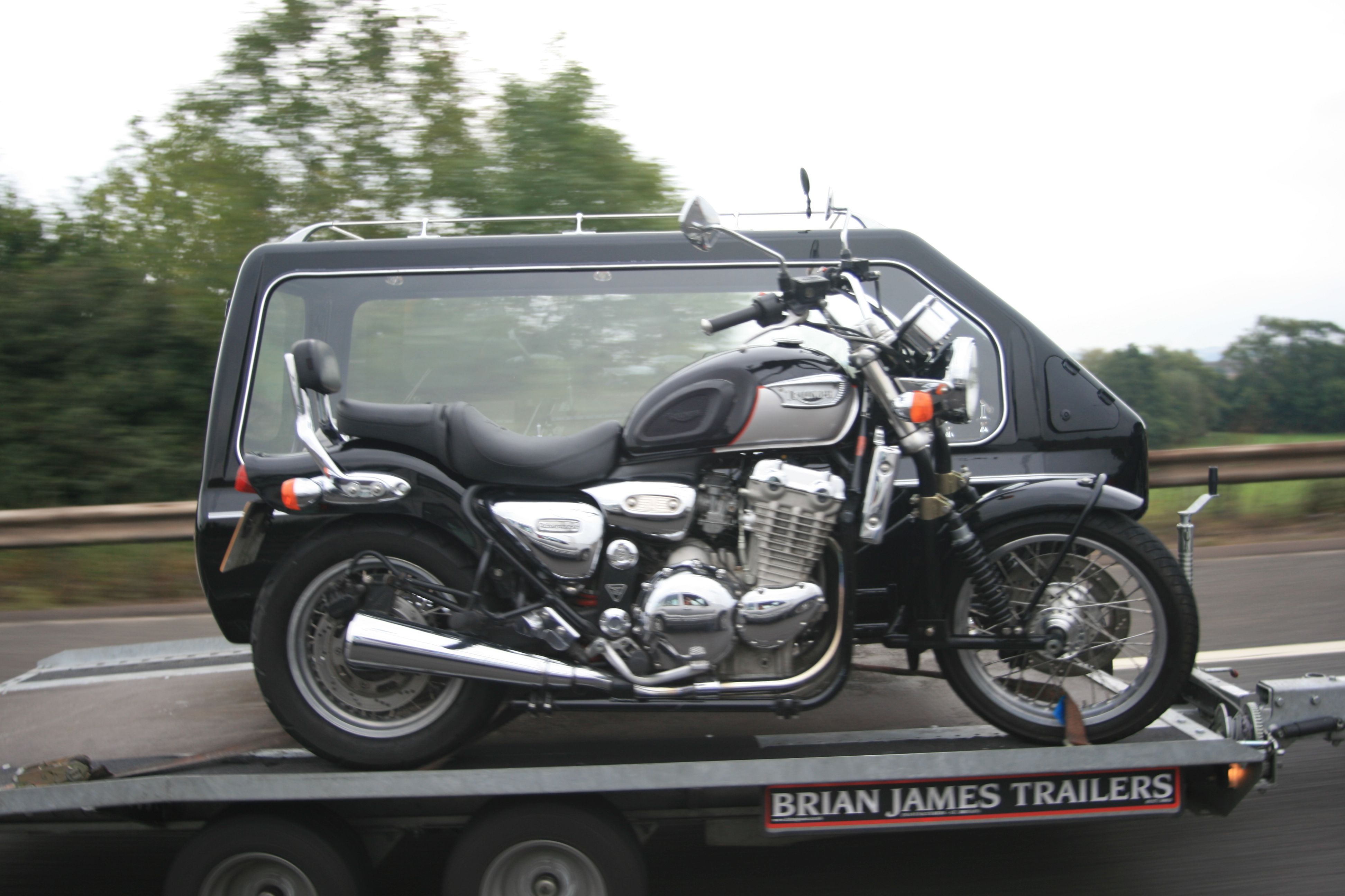 Motorbike hearse